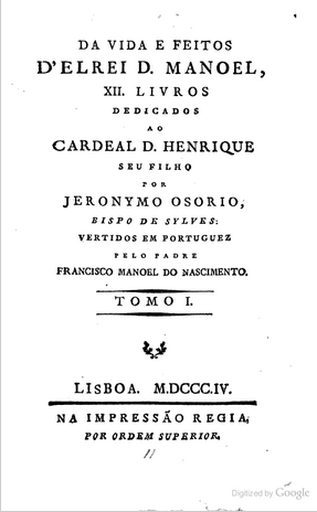 From life and deeds of the portuguese king D. Manoel ..., 1804, by Jerónimo Osório, Francisco Manuel do Nascimento